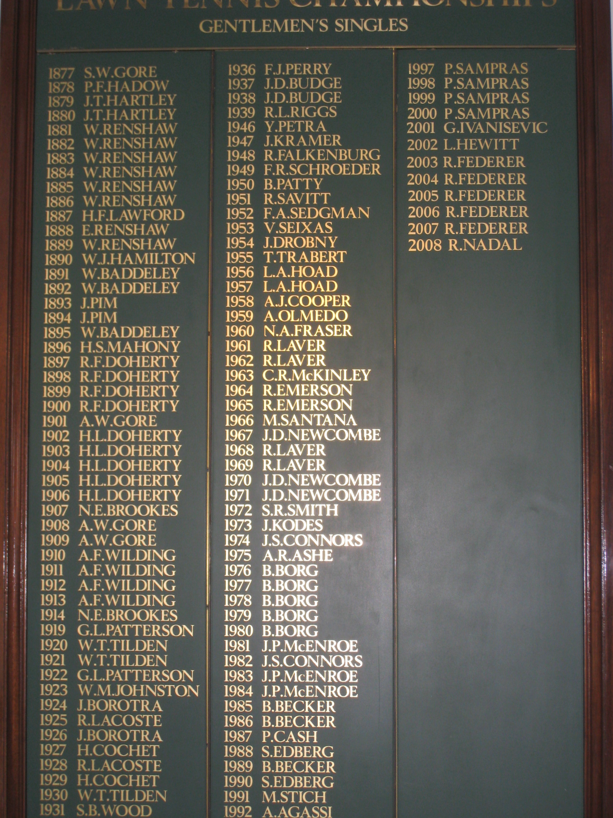 List of the Gentlemen's Singles champions at the Wimbledon Lawn Tennis Museum of the All England Lawn Tennis and Croquet Club